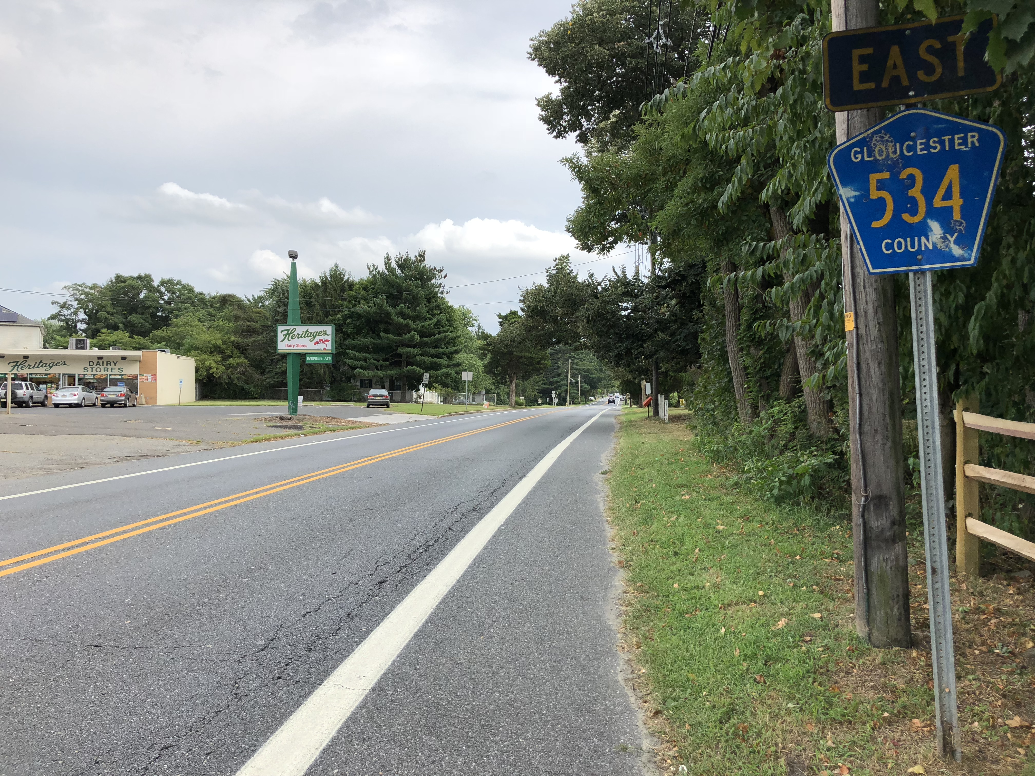 View east along Gloucester County Route 534 (Good Intent Road) just east of Gloucester County Route 706 (Cooper Street) in Deptford Township, Gloucester County, New Jersey